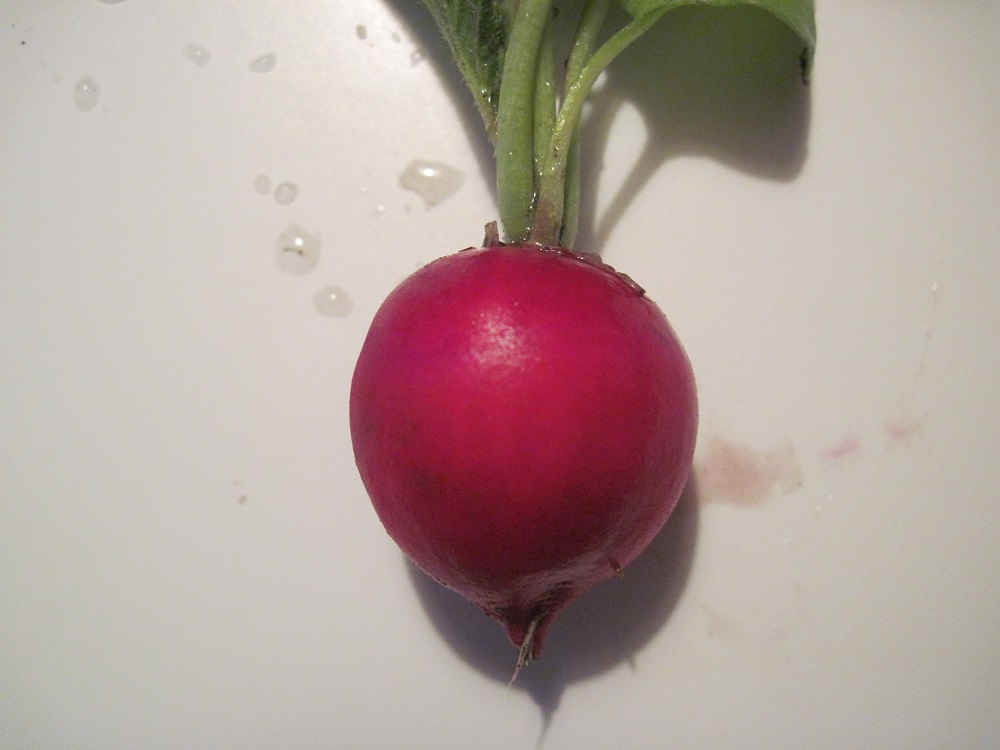 Radish (Raphanus sativus) cultivar 'Raxe'.